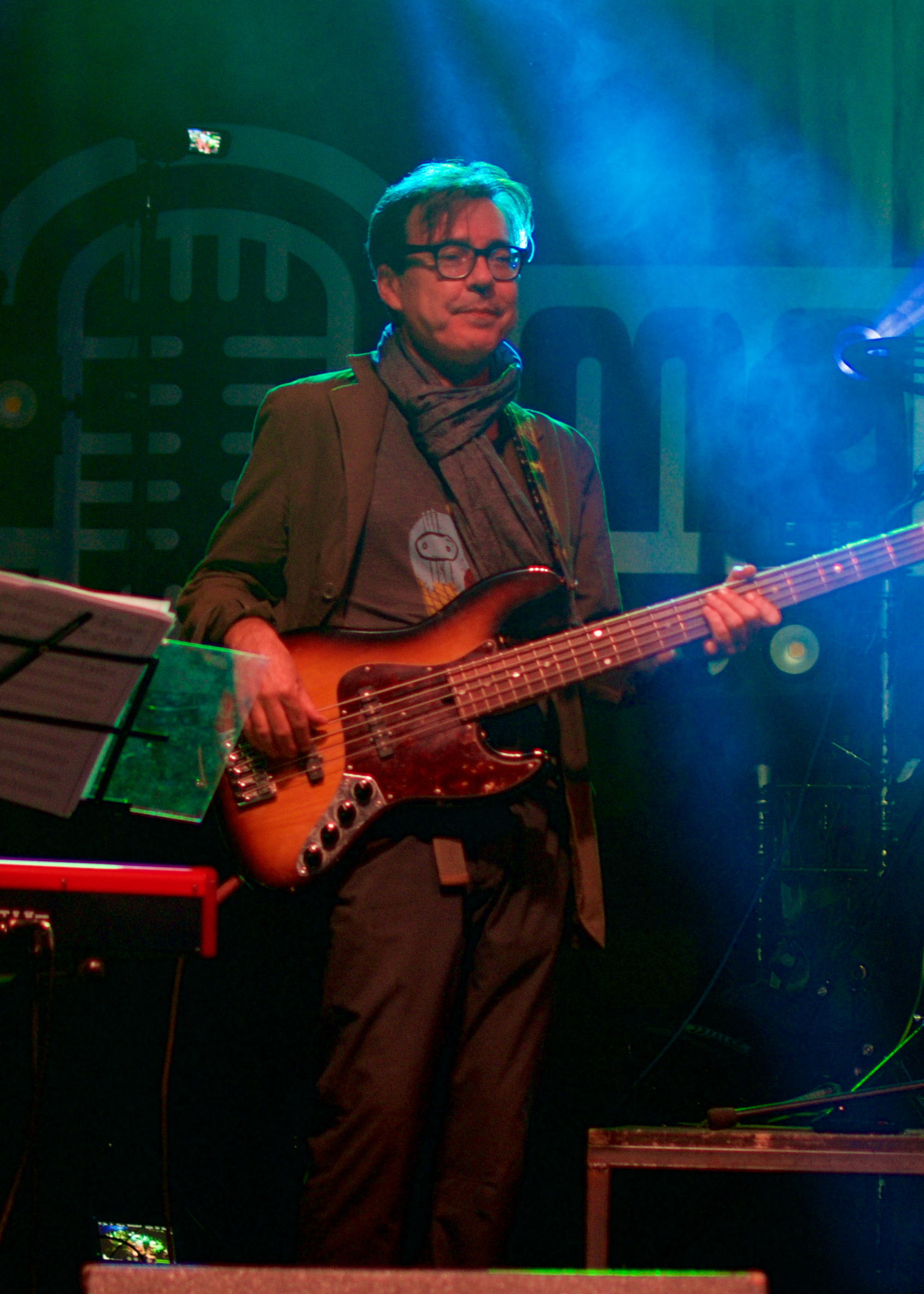 The Bulgarian musician Veselin Veselinov - Eko